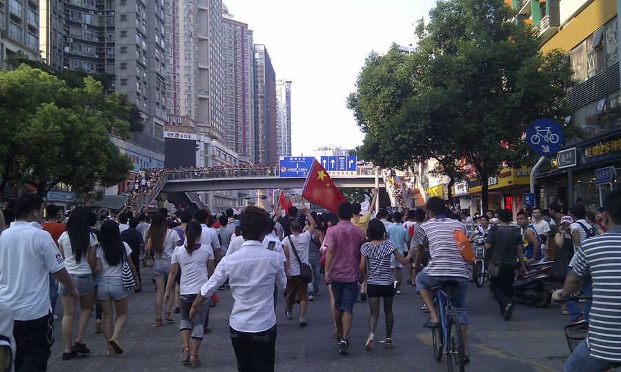 antijapanese manifest in Shenzhen